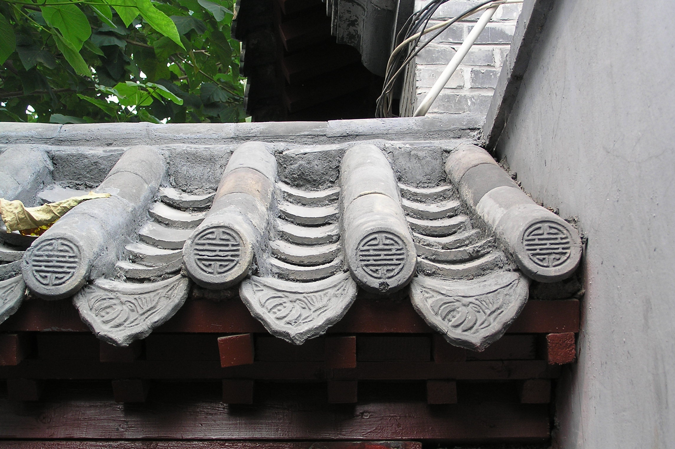 Traditional Chinese roof tiles at a hutong house in Beijing (China).jpg Author: Mr. Tickle Date: July, 2005